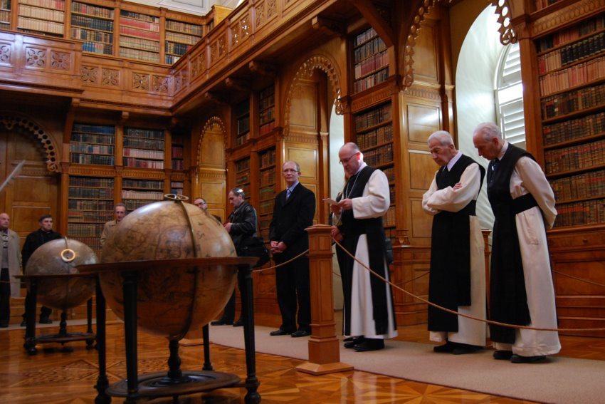 Opening event of the exhibition entiteld "Treasures of the Zirc Abbey" / A Zirci Apátság kincsei kiállításmegnyitó